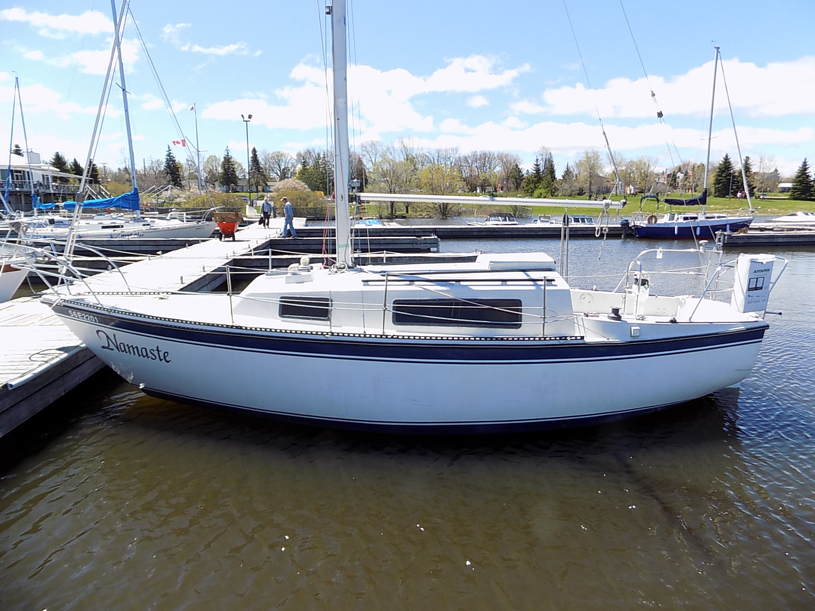 A Nash 26 sailboat named Namaste